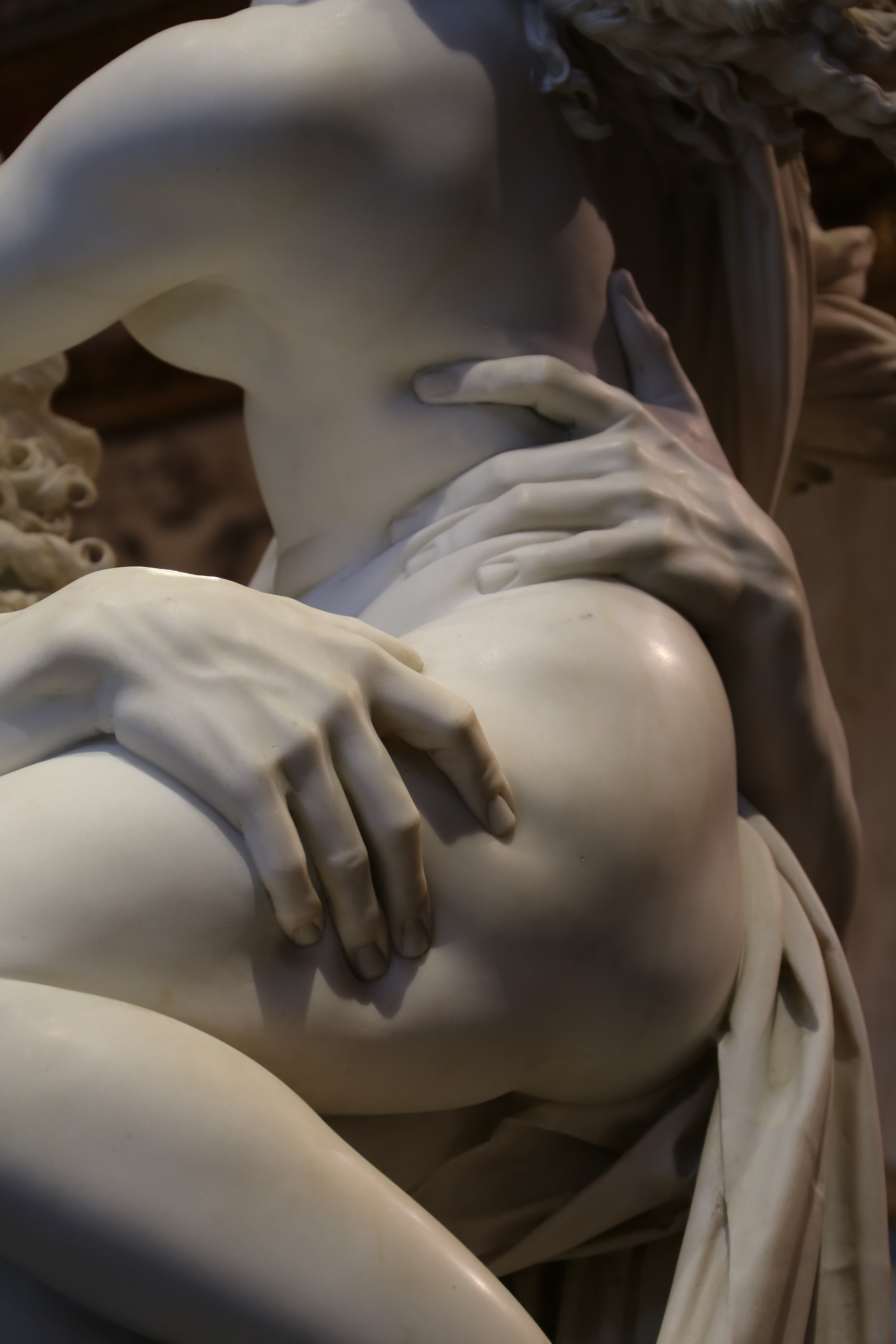 Sculptures in the Galleria Borghese (Rome)